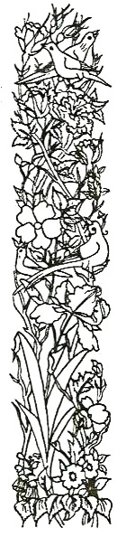 Painting for trapharet by Irevani.